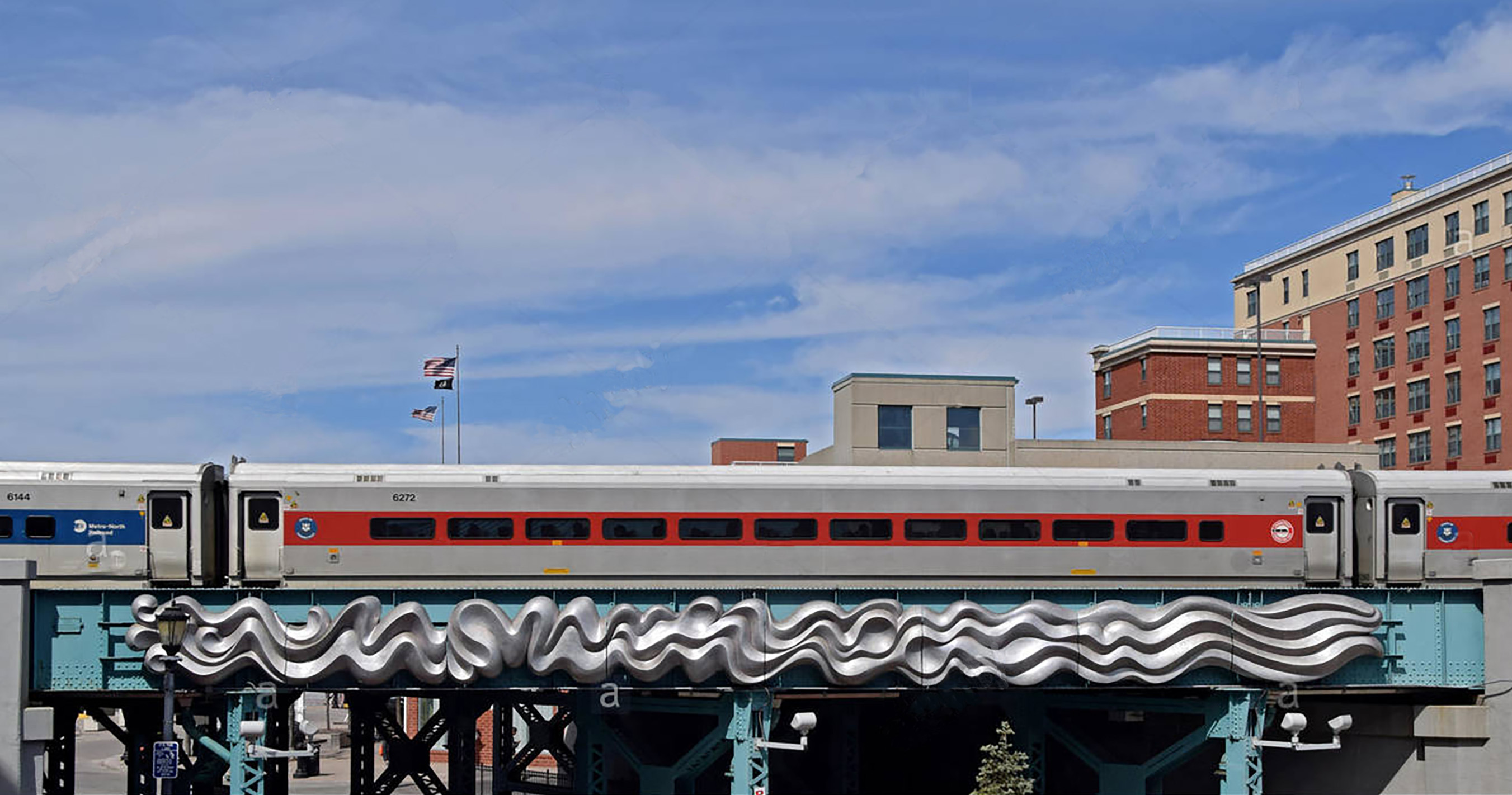 This piece marks the site where once, before the development of Downtown Yonkers, the Hudson met forty-foot cliffs. The bridge represents the very view that was there before the bridge itself, or Yonkers, ever existed: a river glistening in the sun with the Palisades looming in the background.